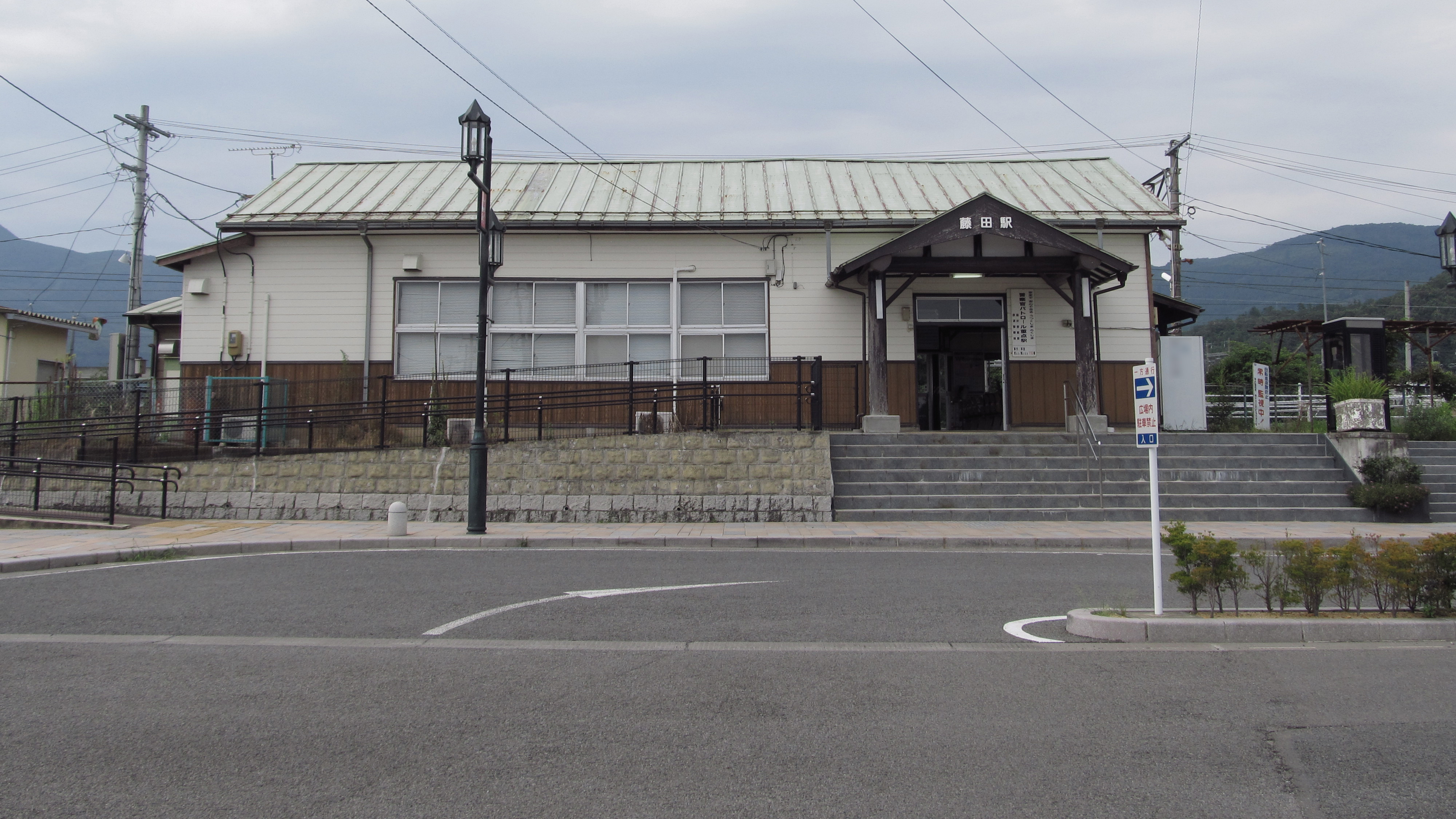 The building of Fujita Station on the Tōhoku Main Line in Kunimi town, Fukushima prefecture, Japan